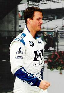 Ralf Schumacher, Indianapolis, 2002